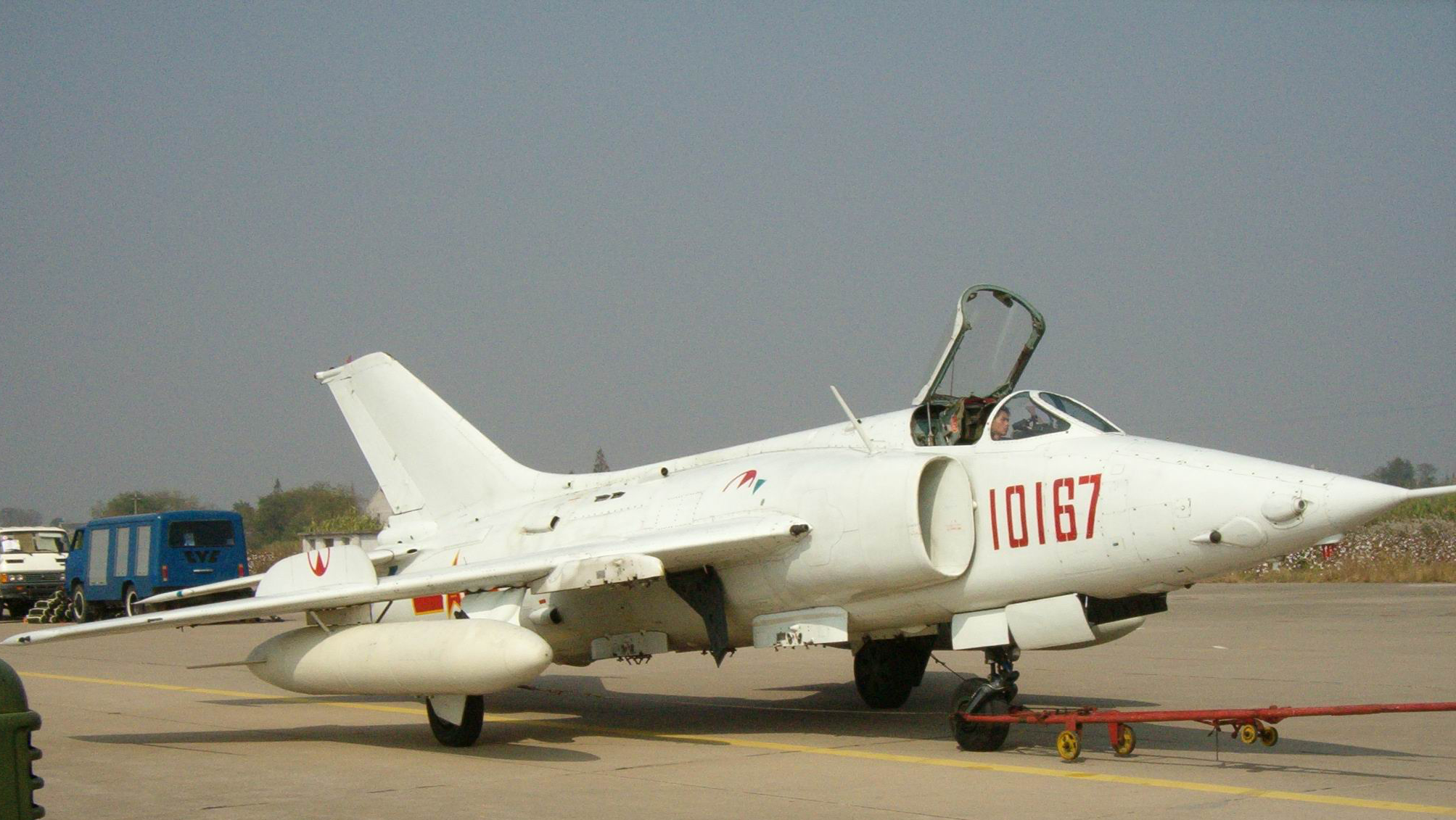 photo of a q5 attacker